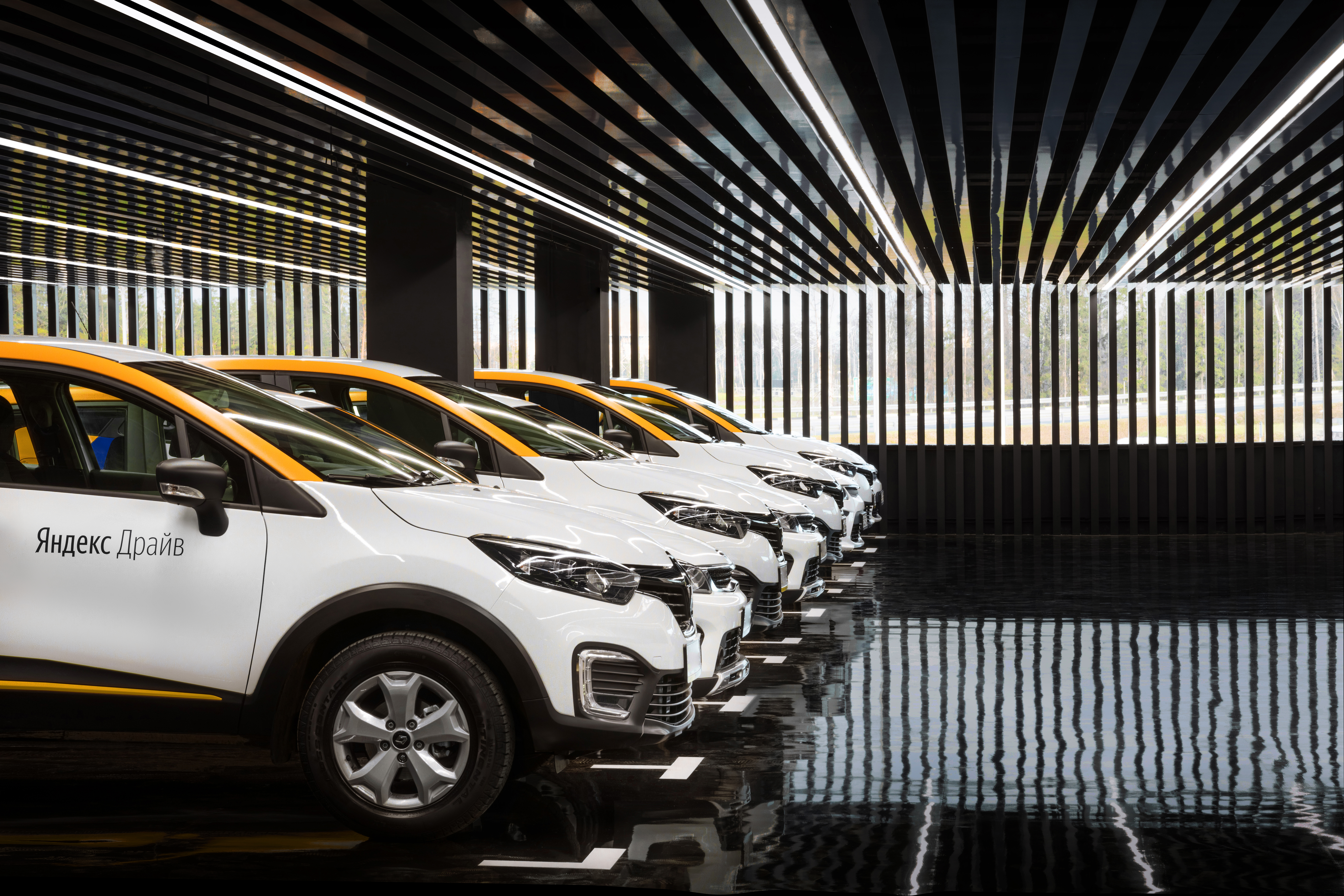 Yandex.Drive Renault Kaptur